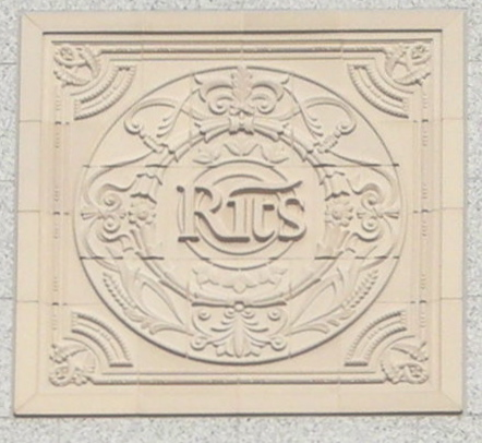 Surface embellishment 2 (Nakagawa Hall of Ritsumeikan University, Kyoto, Japan)